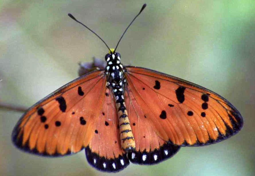 Tawny Coster(হরিনছড়া), Kolkata,West Bengal,India